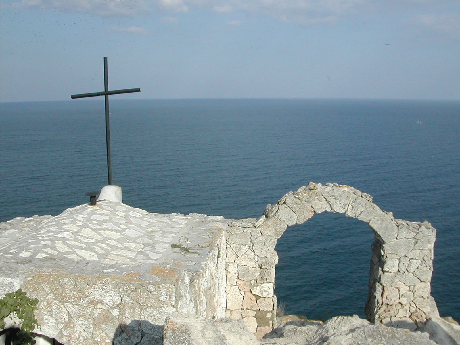 Kaliakra, Bulgaria, the Chapel "Saint Nikola" at the cape tip, 2003